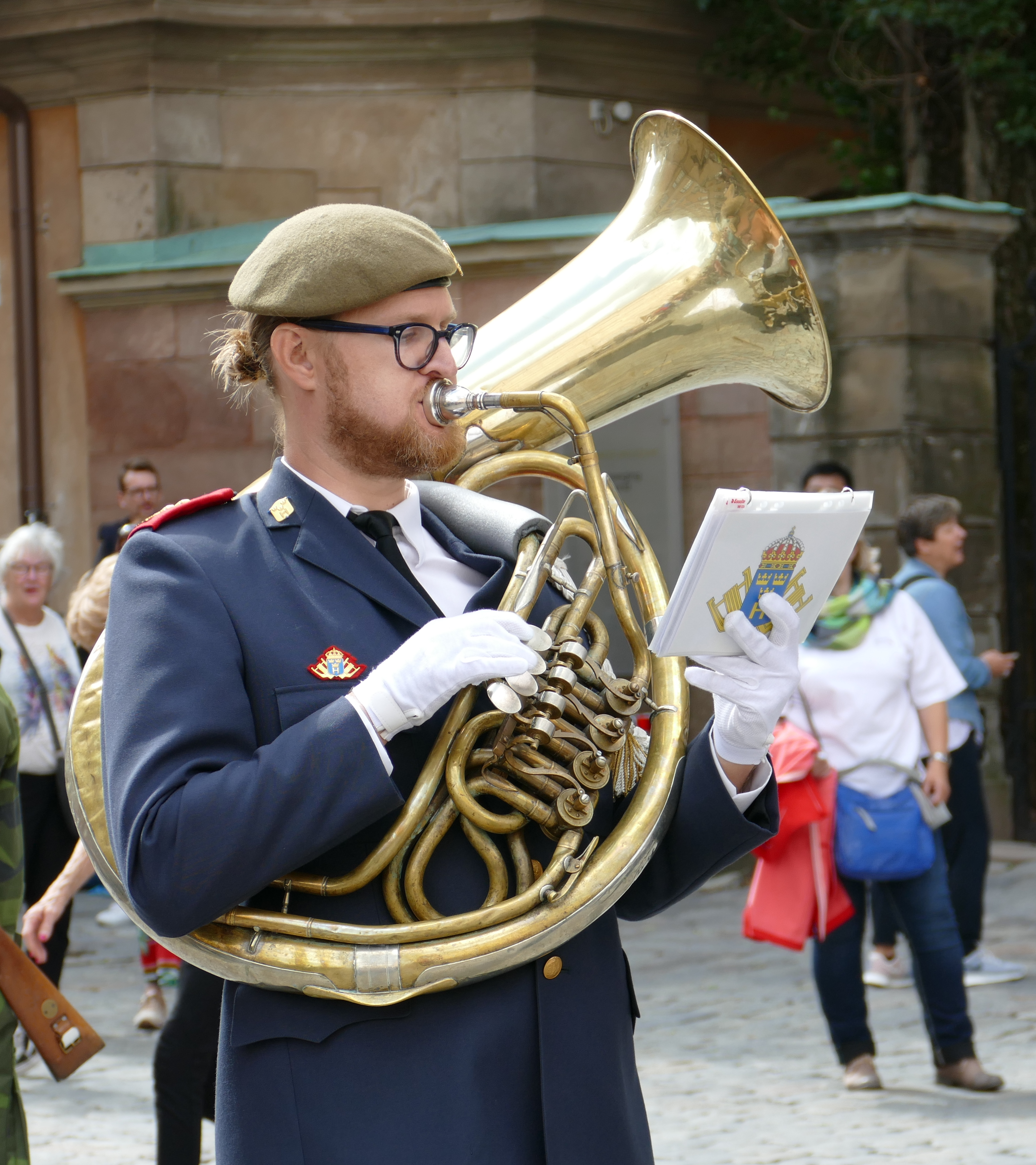 Military orchestra in front of the Stockholm Palace - helicon player